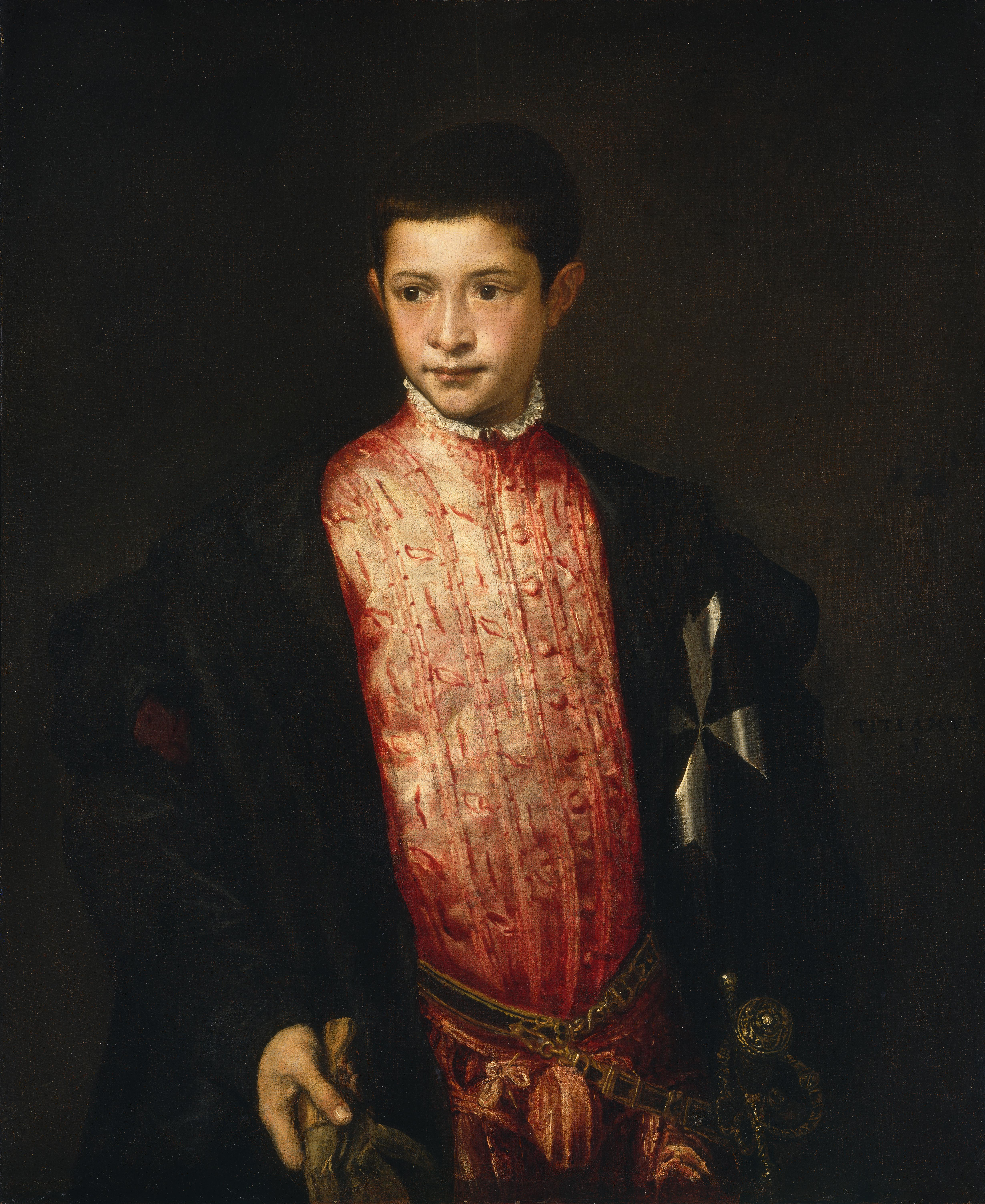 Ranuccio Farnese, the grandson of Pope Paul III, was 12 years old when Titian painted his portrait.